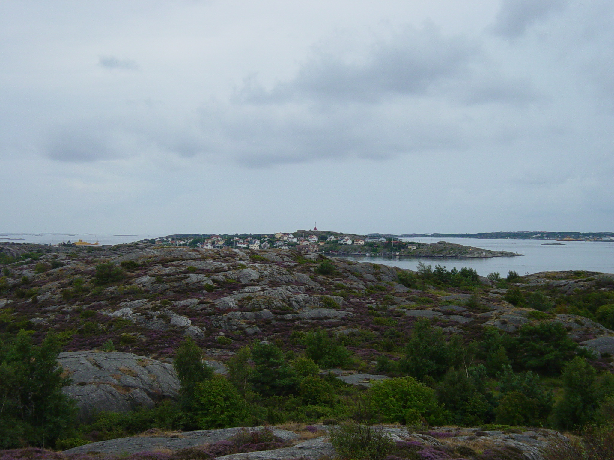 Björkö island Västra GötalandsSweden